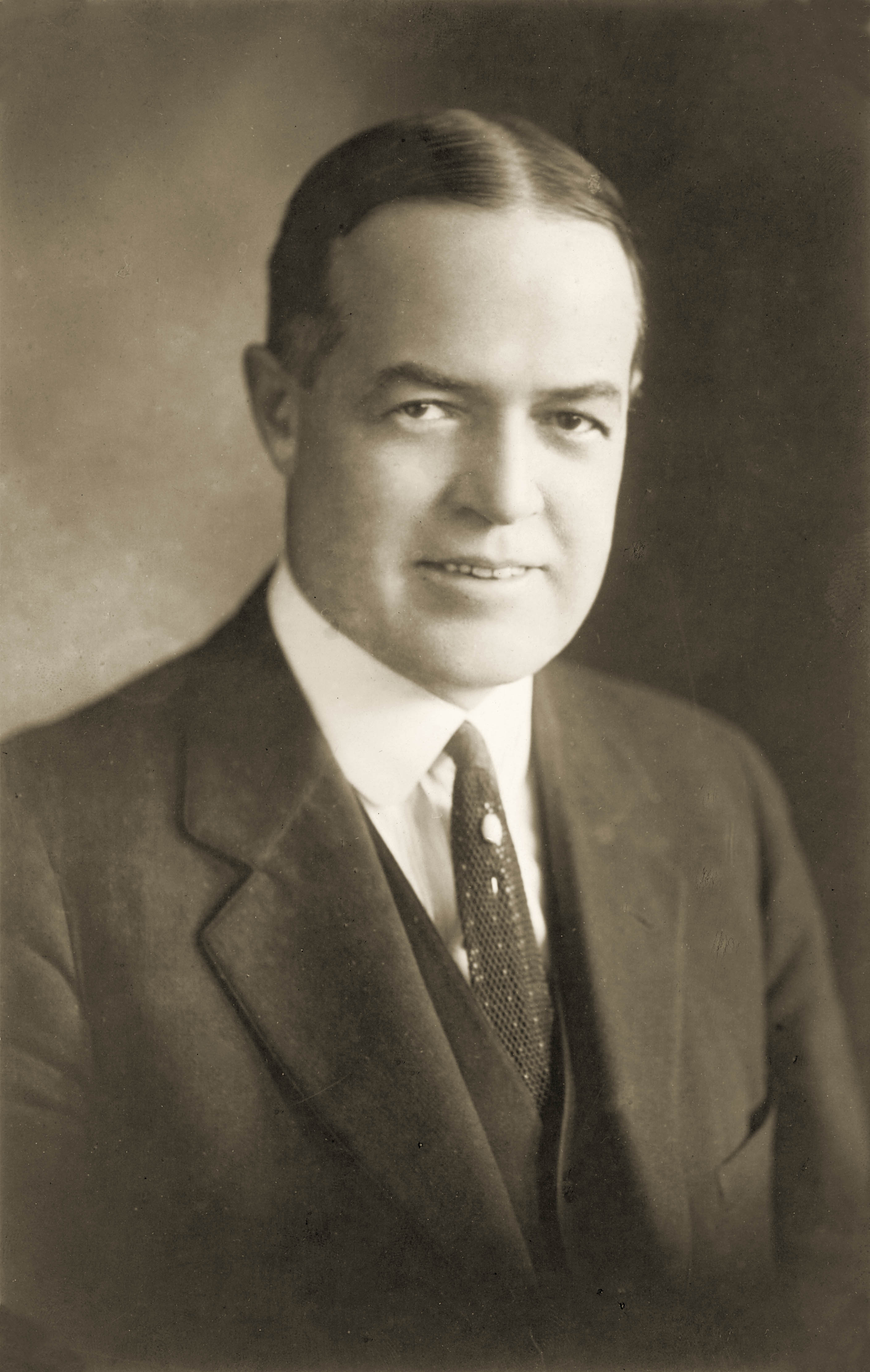 Paul P. Hastings (1872-1947), Vice President of Atchison, Topeka and Santa Fe Railway. Formal portrait by Smart Studios.